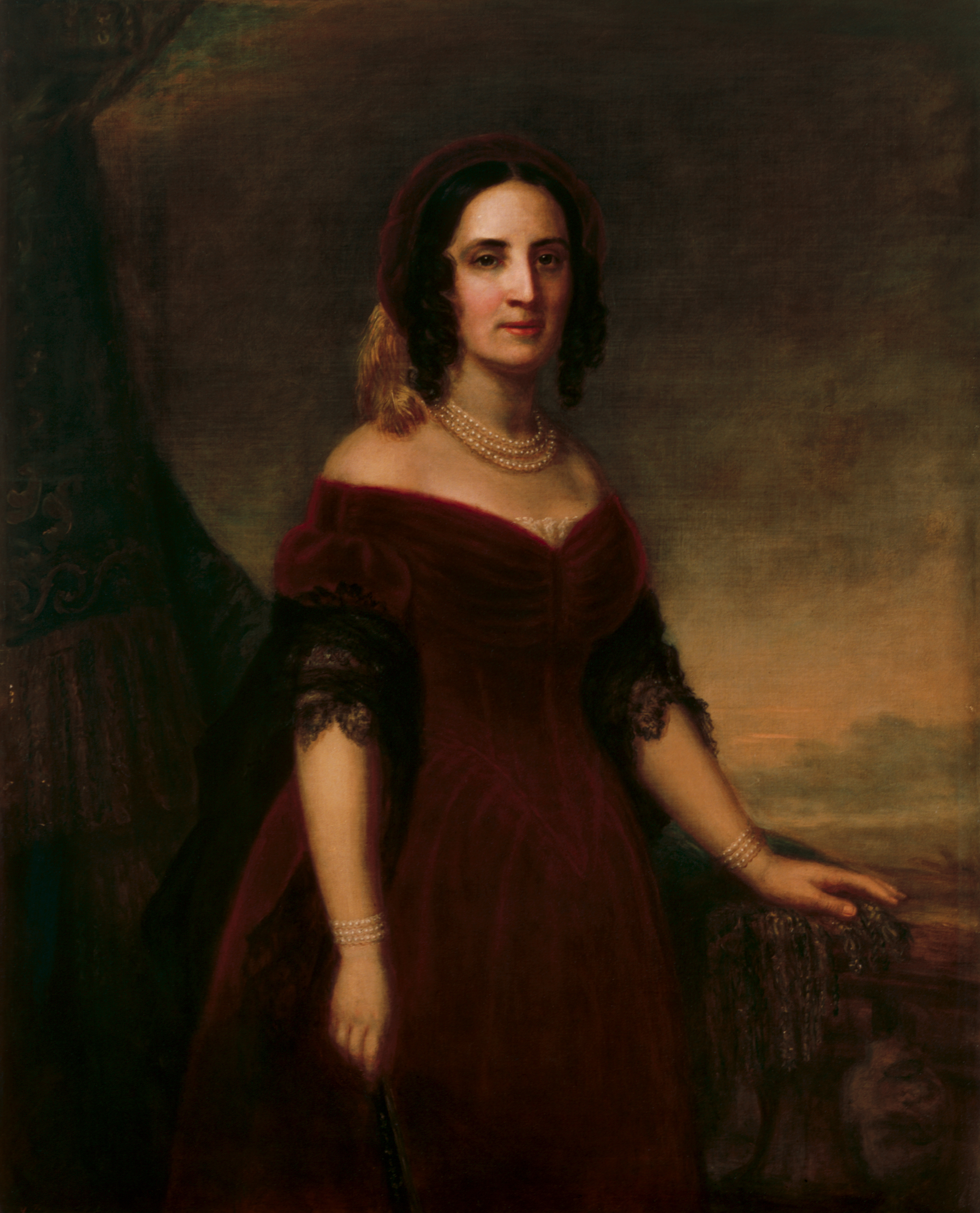 Portrait of Mrs. James K. Polk (1803-1891)